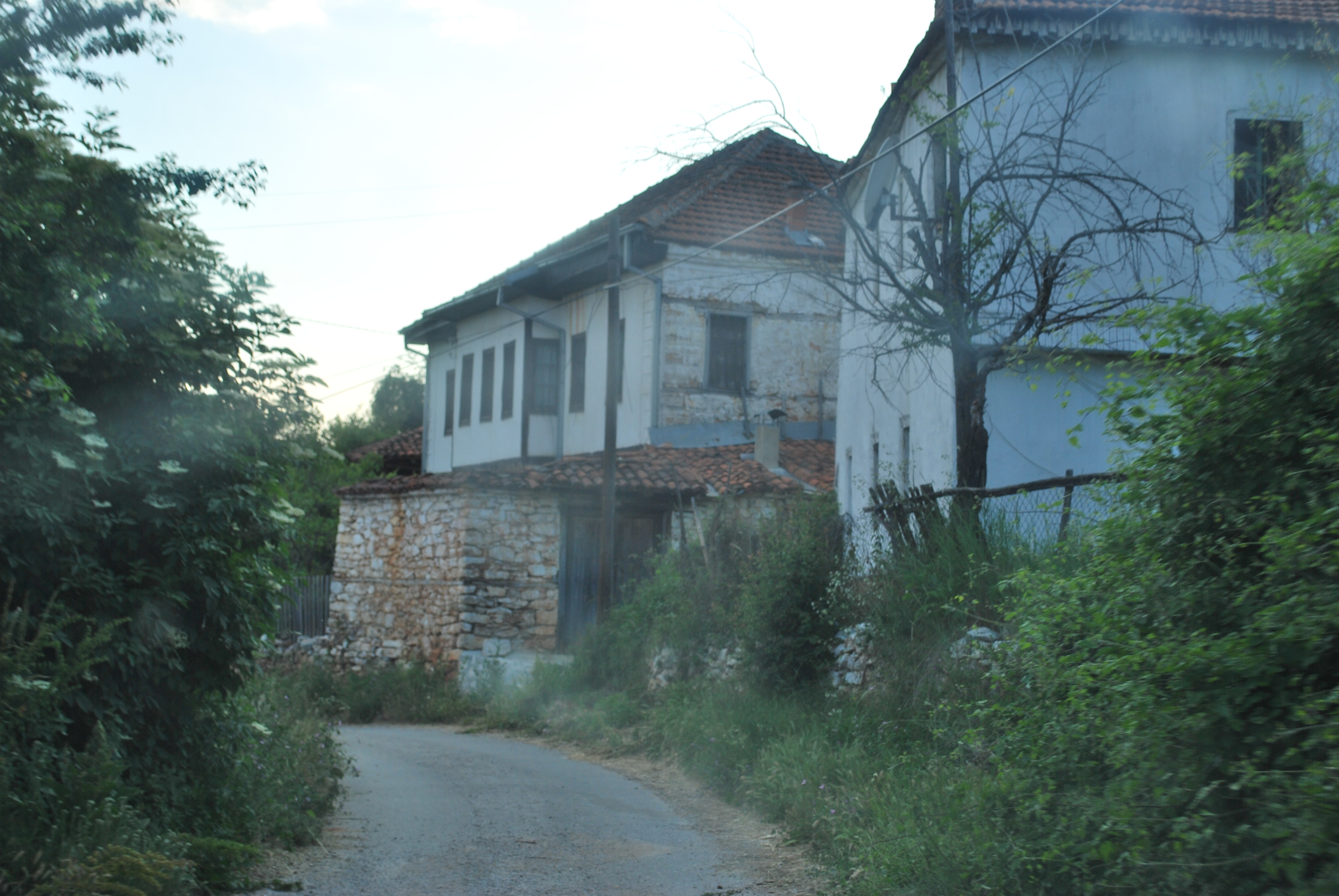 Village of Cer, Macedonia